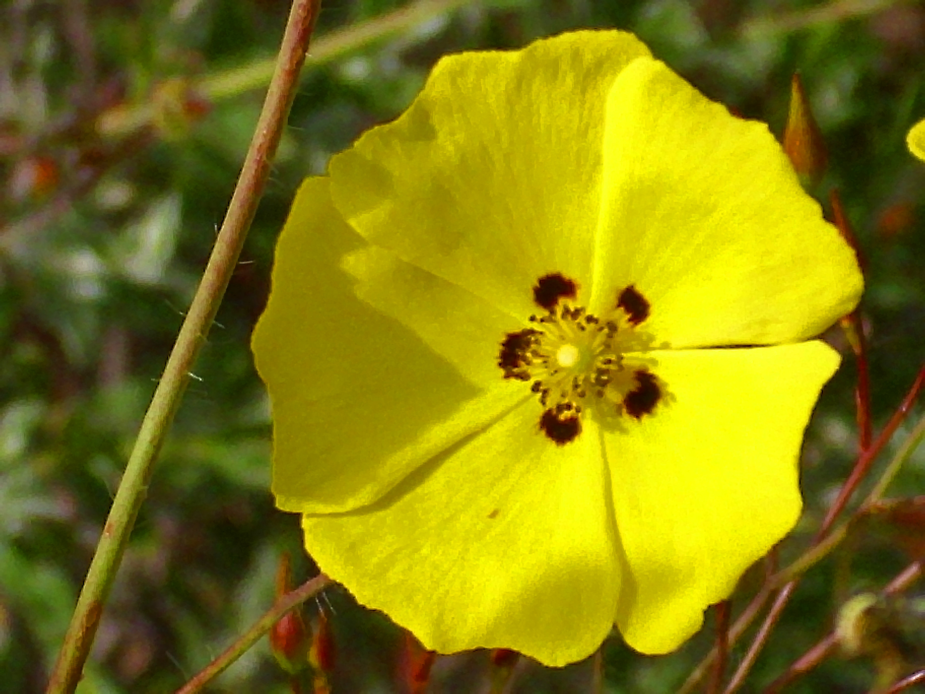 Halimium ocymoides close up, Valderrepisa Sierra Madrona, Spain